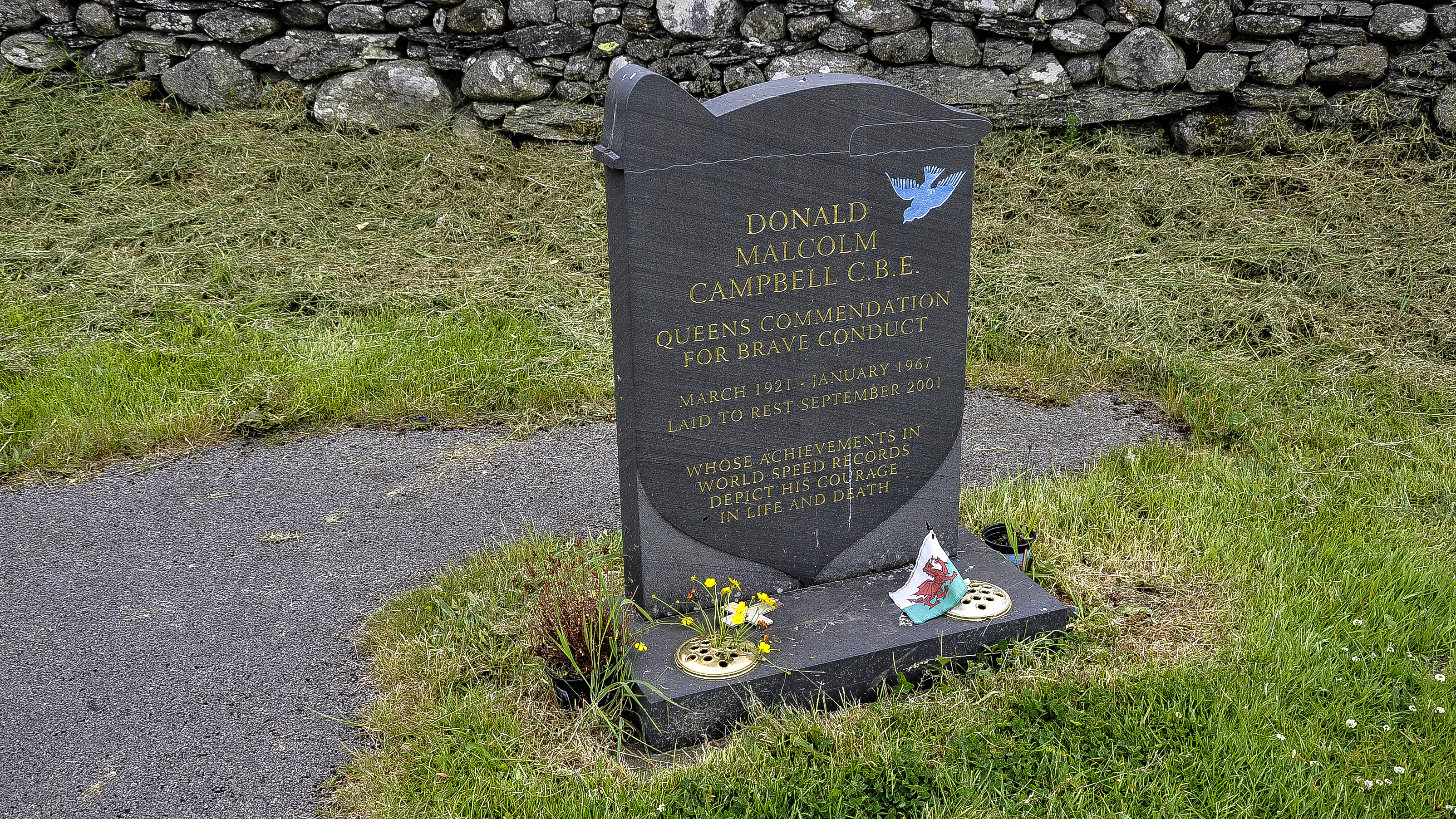 Grave of Donald Campbell, Coniston